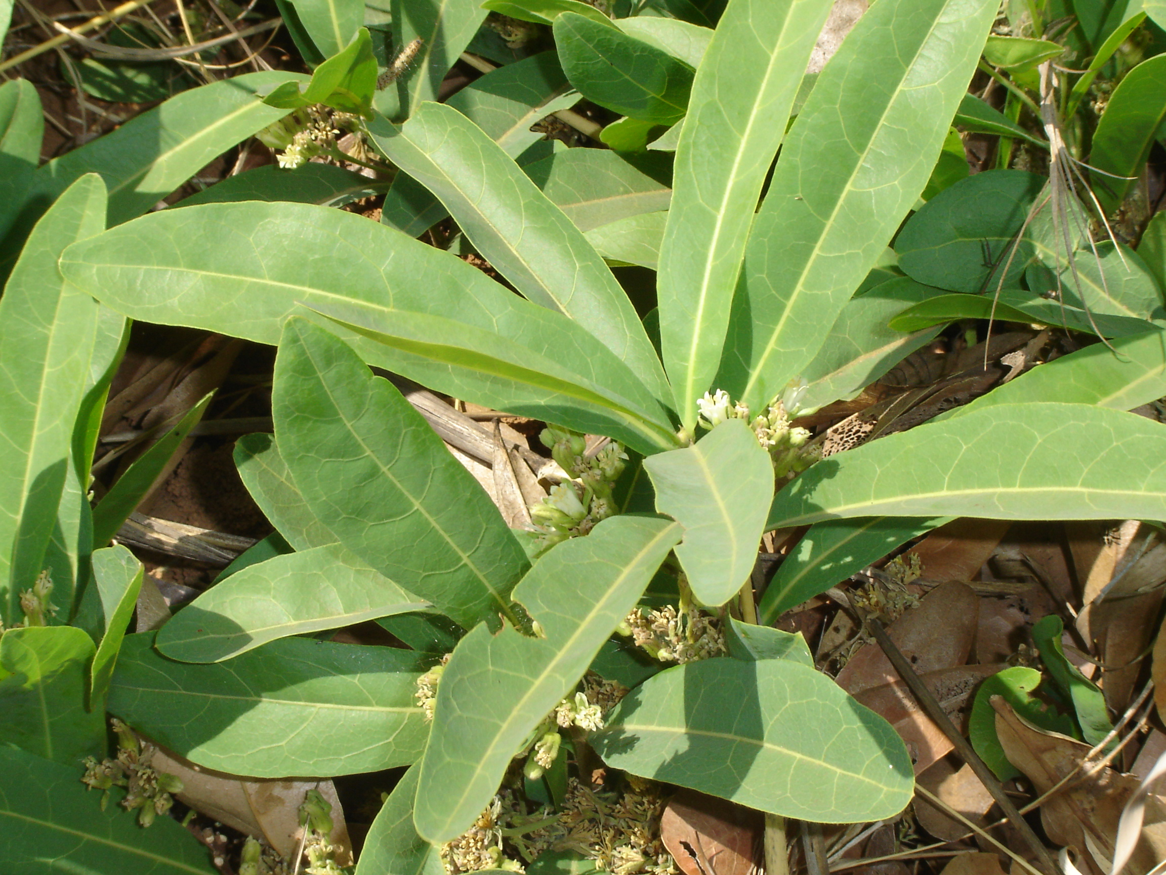 a poison leaf (ratbane, Dichapetalum cymosum, gifblaar). The plant is African and has naturally made fluorocetate, a poison, to ward off animals.